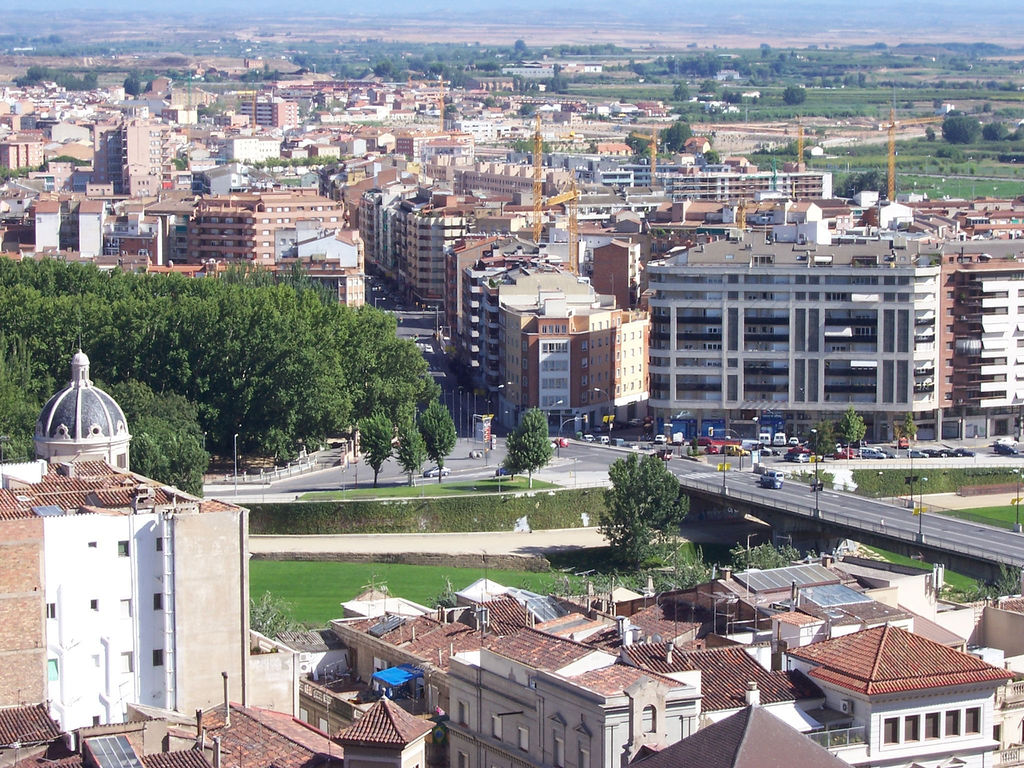 Cappont and La Bordeta boroughs, in the city of Lleida, seen from La Seu Vella.